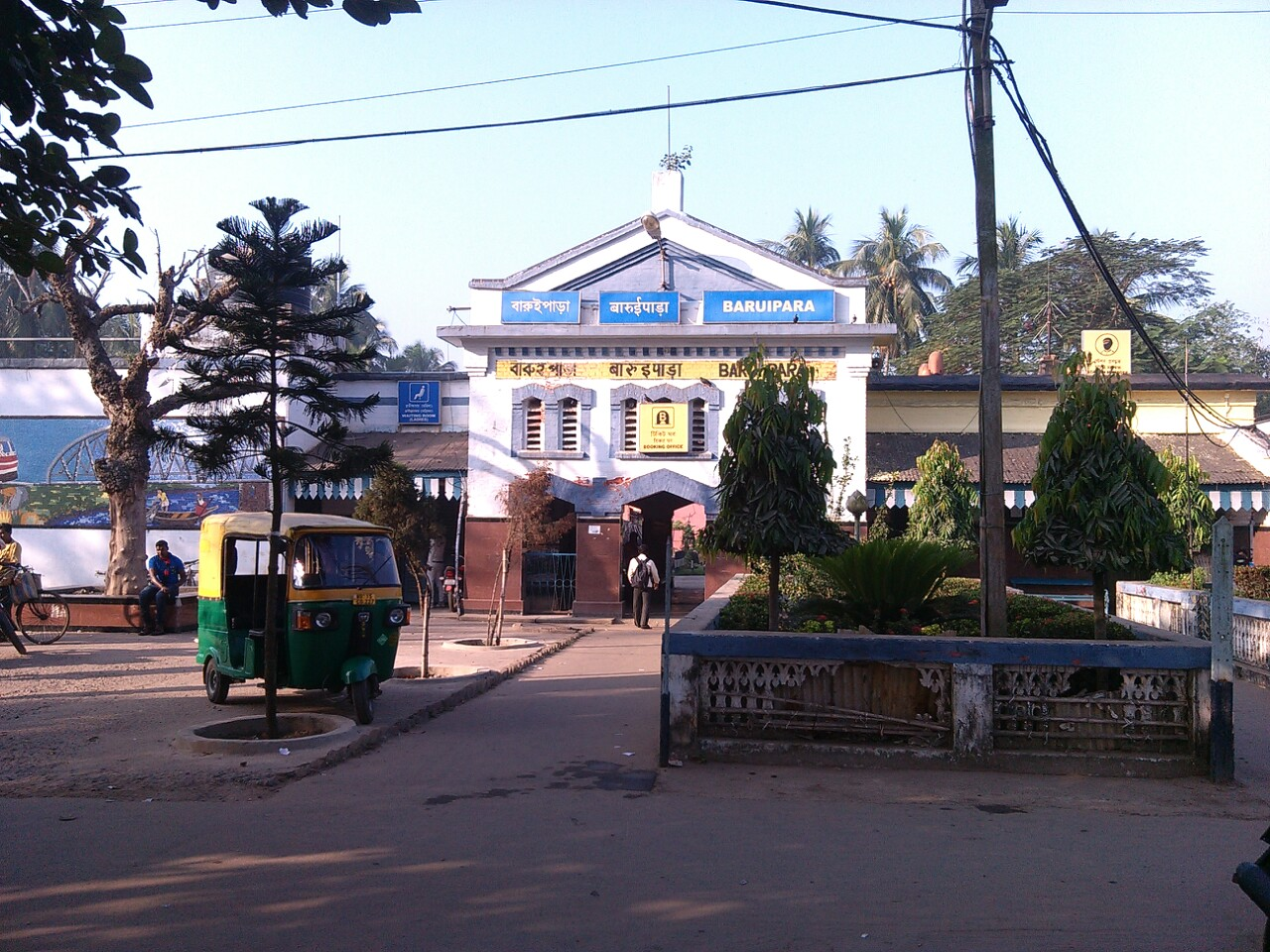 Baruipara is a railway station of the Howrah-Bardhaman chord lines. It Baruipara in Hooghly district in the Indian state of West Bengal.